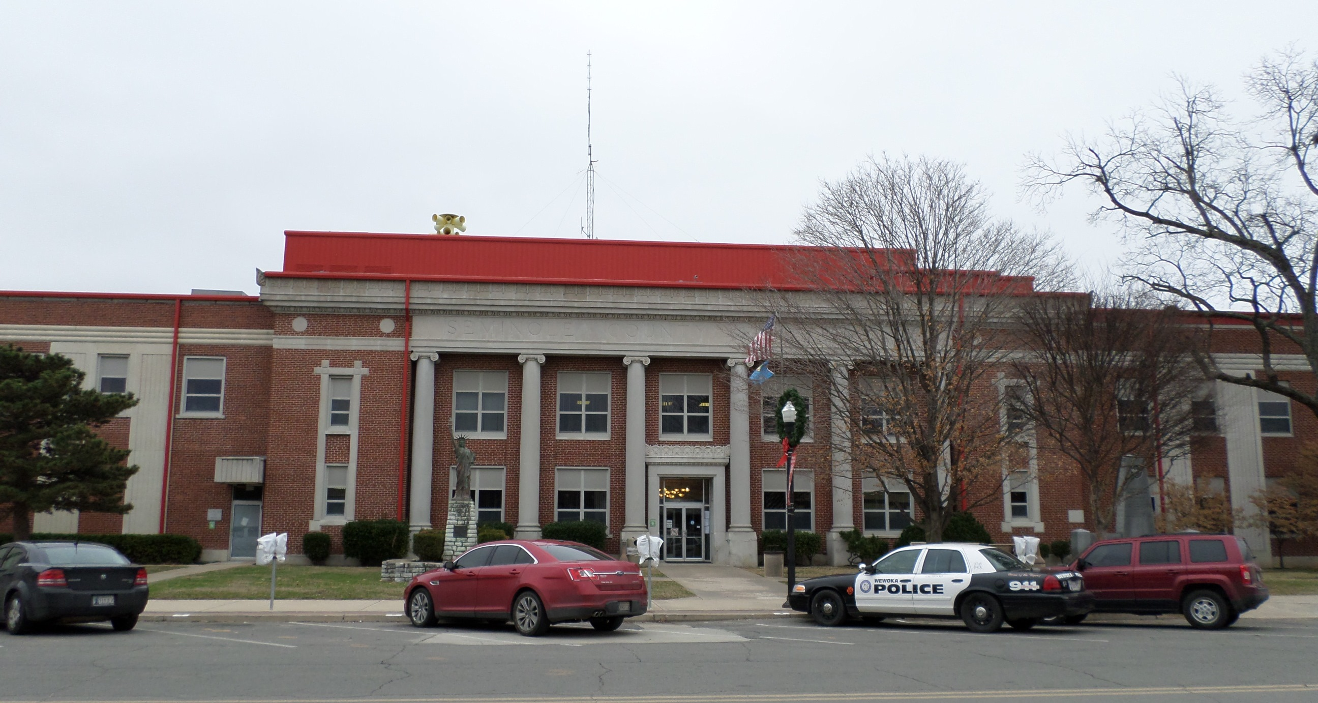 The Seminole County Courthouse, located at 120 S Wewoka Ave, Wewoka, OK. The building is listed on the National Register of Historic Places.